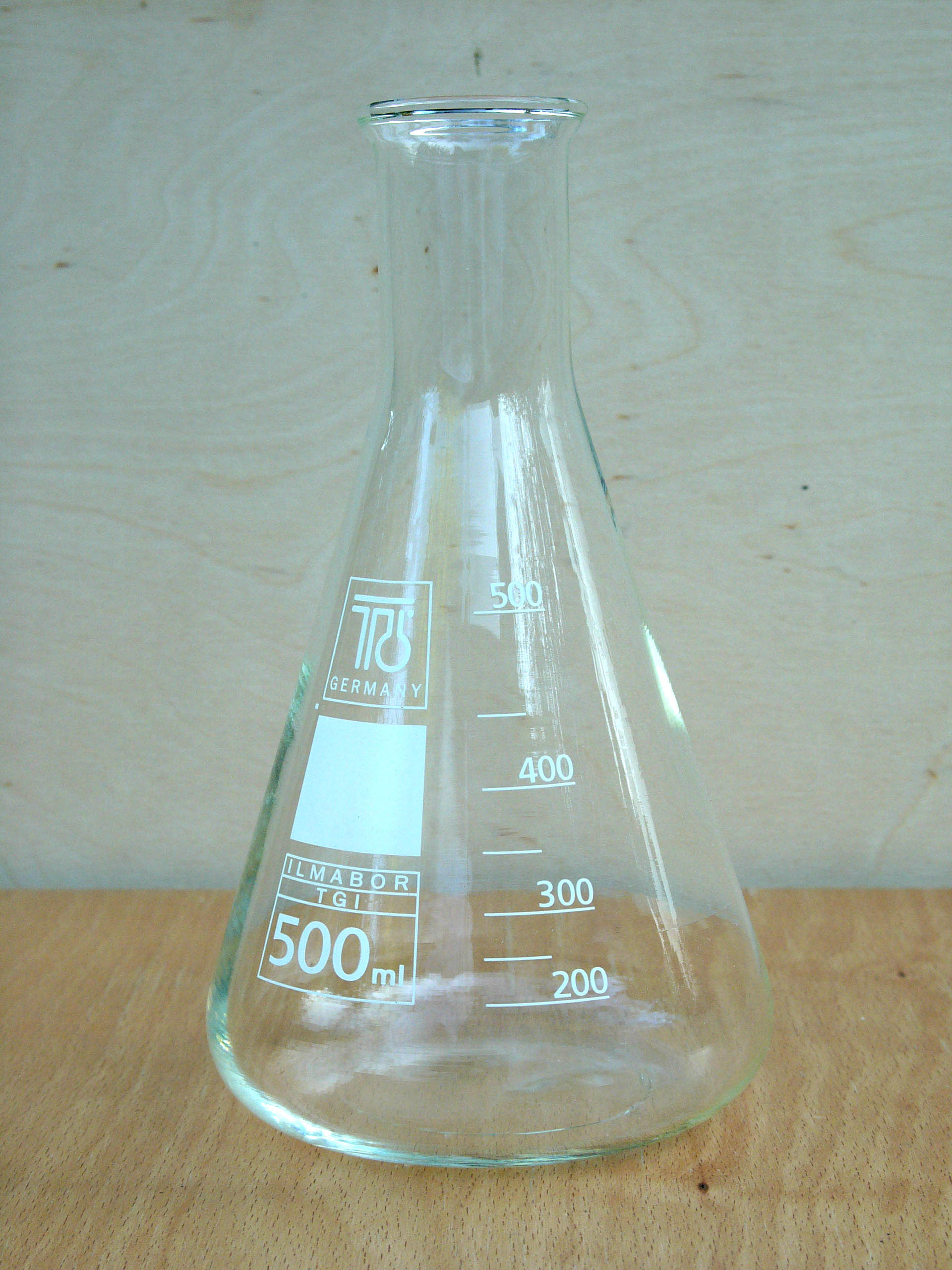 Erlenmeyer flask